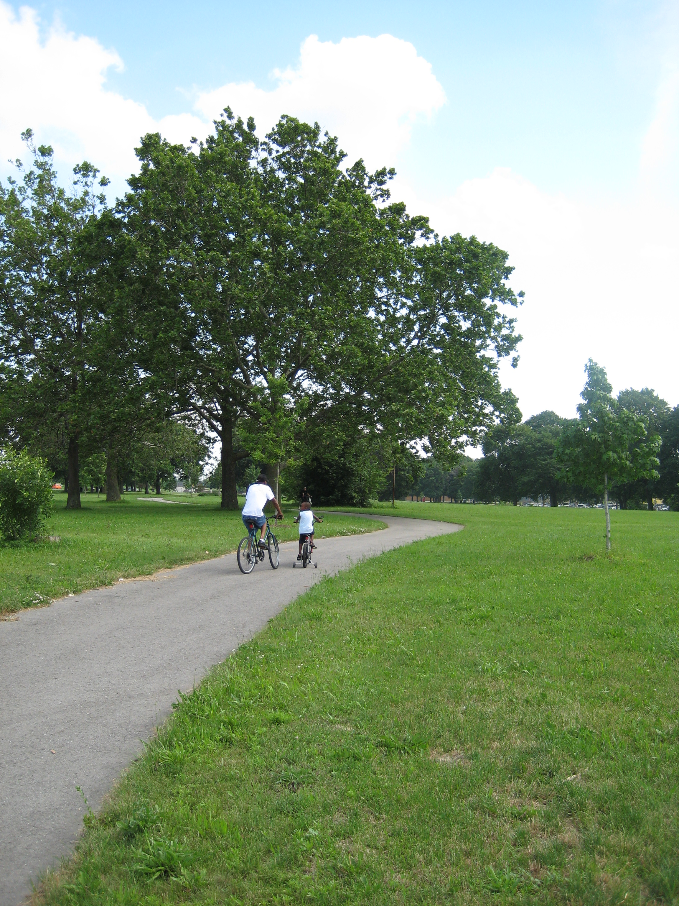 The Conner Creek Greenway at the Conner Playfield, Detroit, Michigan